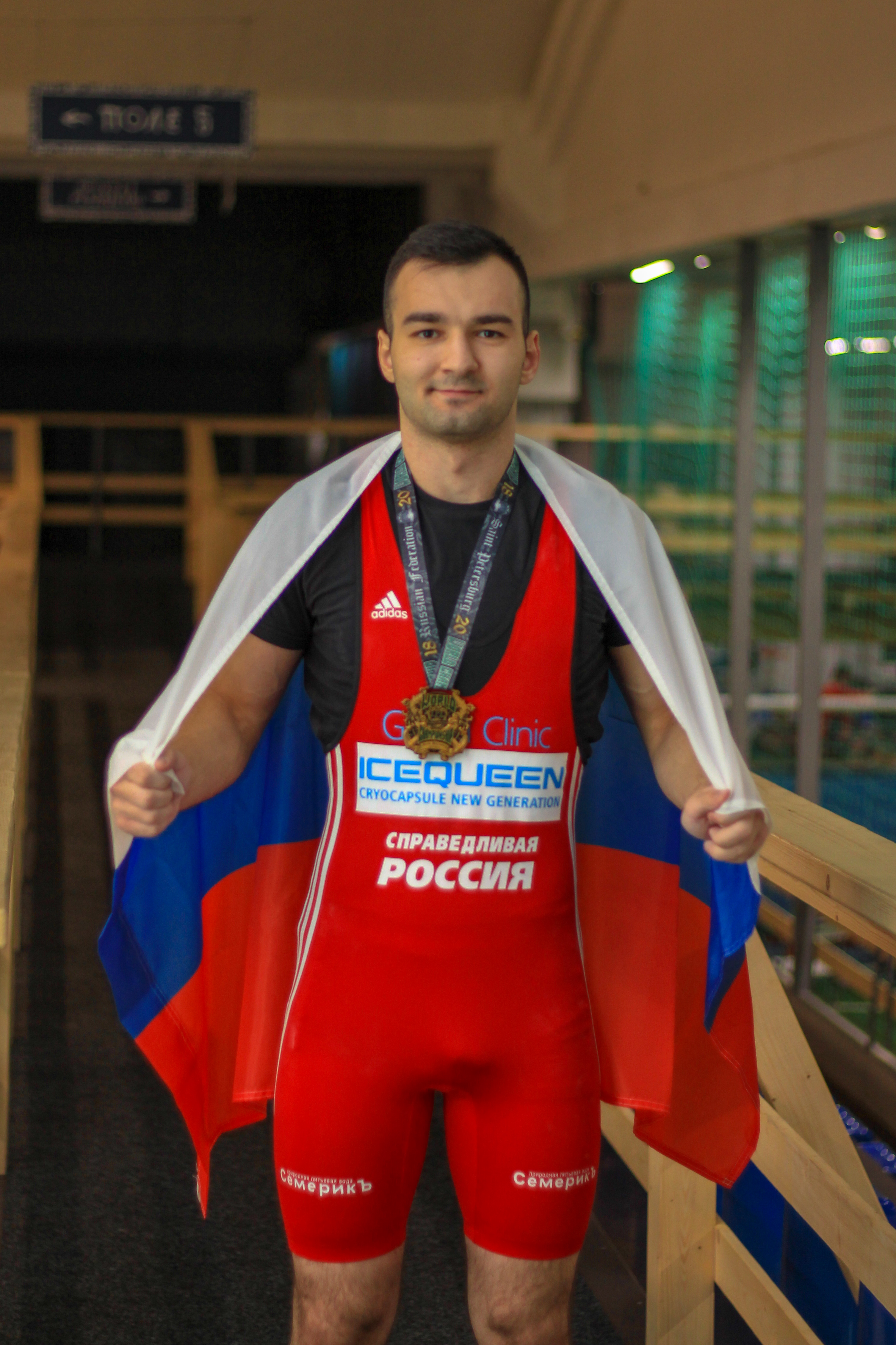 Фотография с чемпионата мира 2019